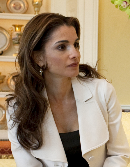 Jordan's Queen Rania in the Yellow Oval Room in the White House Residence.